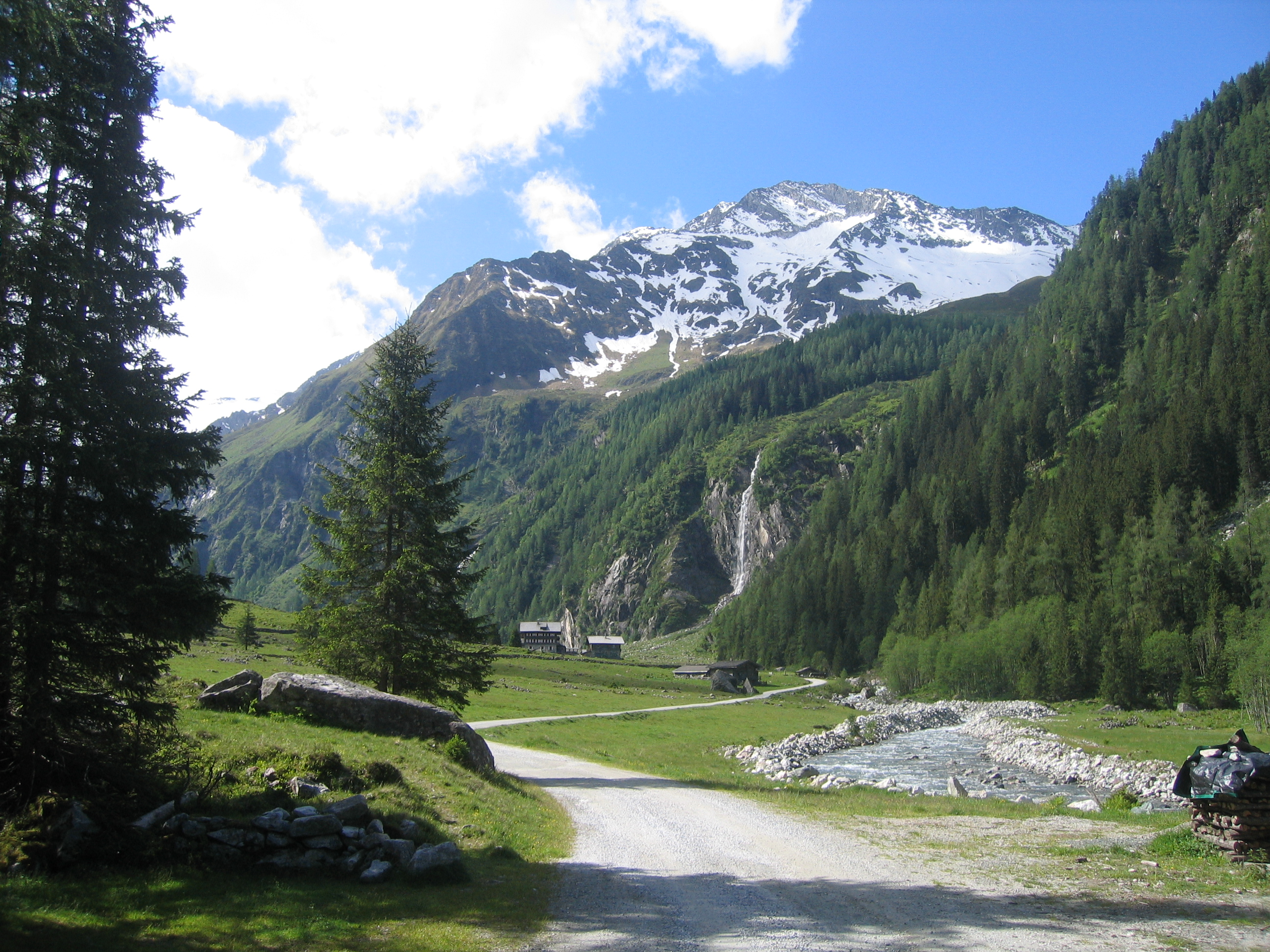 Habachtal viewing Hotel Alpenrose and Leiterkogel (2987 metres) in the background